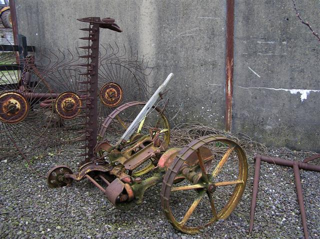 Old farm implement, Glenhordial, 4 km from An Oghmagh, Ireland. This cutting bar would have been originally pulled by a horse. My late uncle had a similar one which was modified to be pulled by the tractor, this I know because one of my tasks on my summer vacations was to go out and mow the benweeds (ragwort) with a cutting bar behind the wee Fergie.